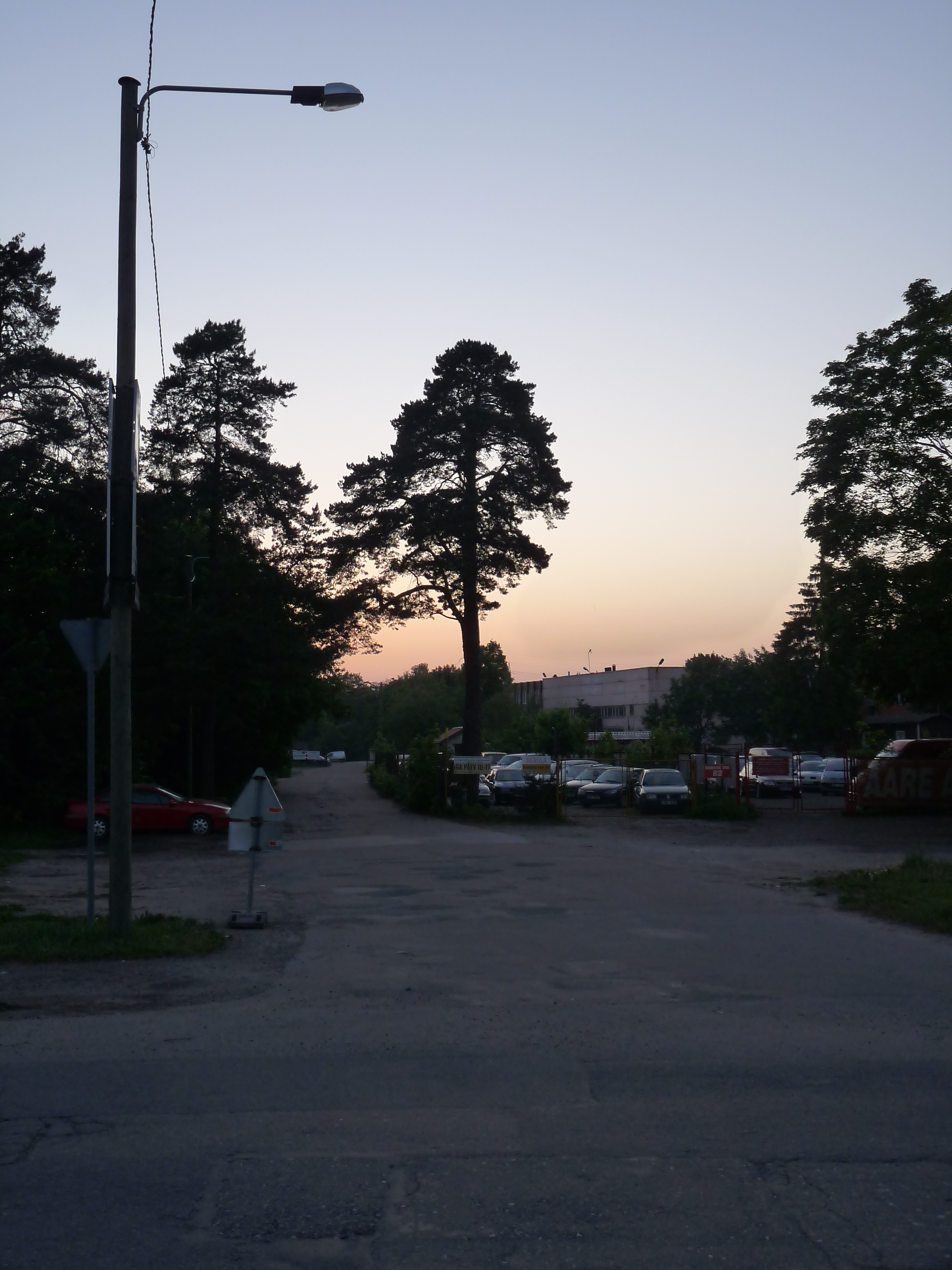 Iva street in Tallinn, Estonia